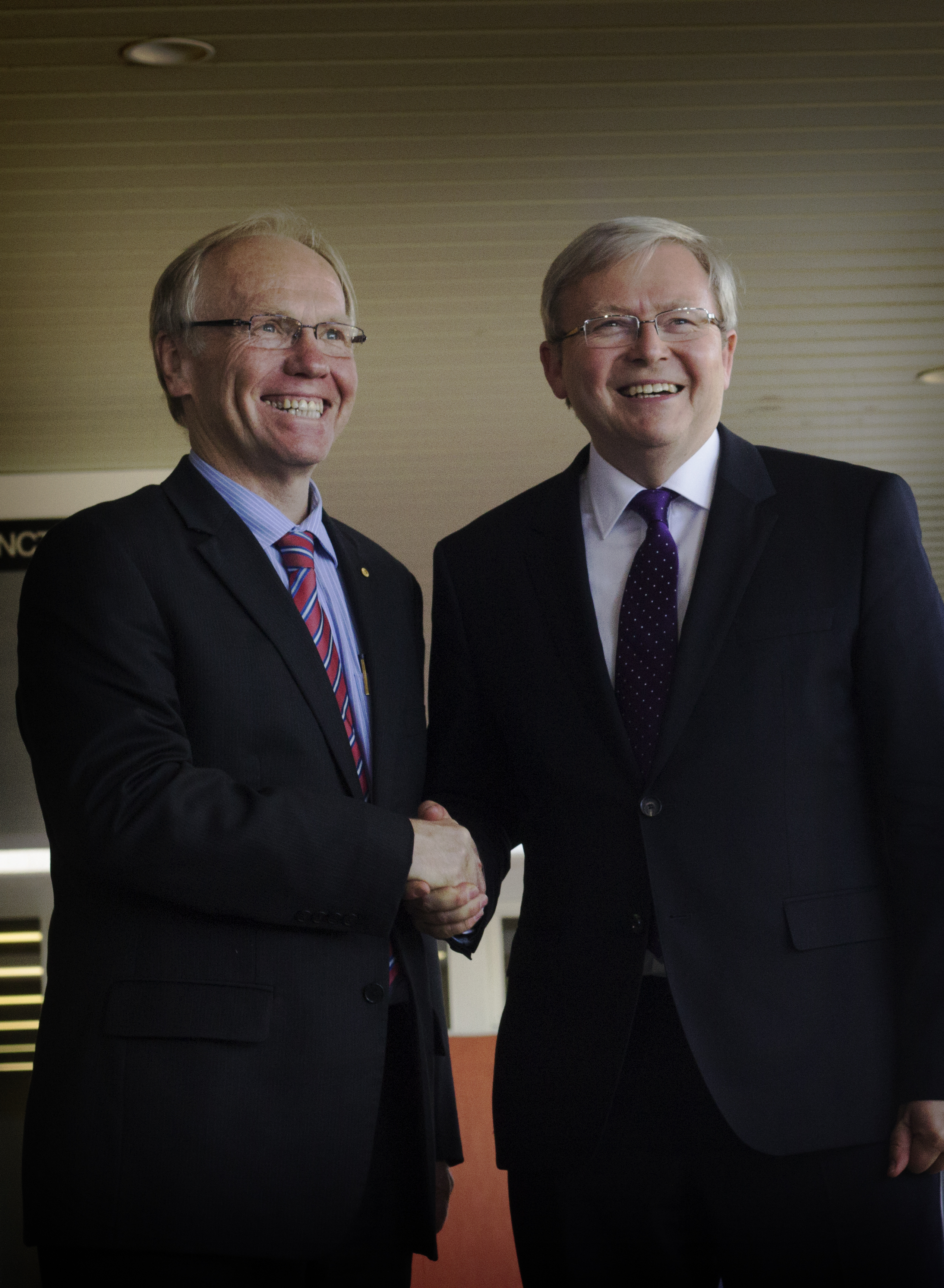 Former Queensland premier Peter Beattie and then-Prime Minister of Australia Kevin Rudd in August 2013, following a press conference.